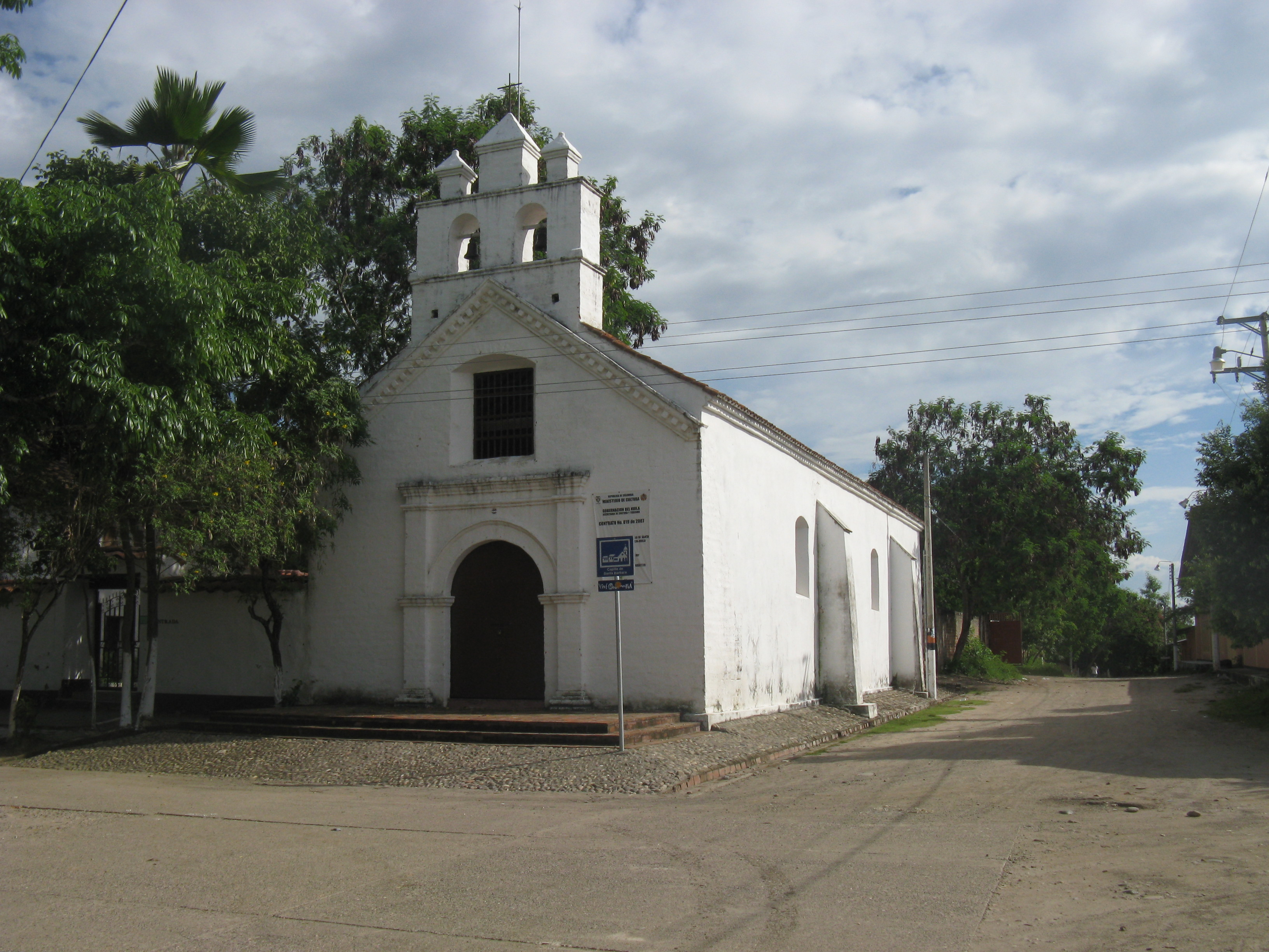 Small Church in the centre of Villa Vieja